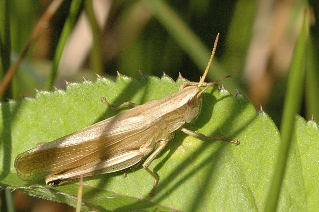 Picture taken in Commanster, Belgian High Ardennes . Species: Chrysochraon dispar female